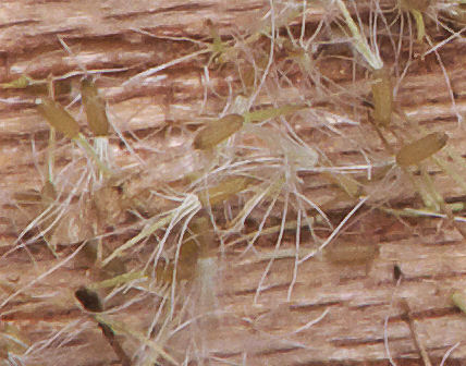 Gnaphalium uliginosum seeds, length 1 mm